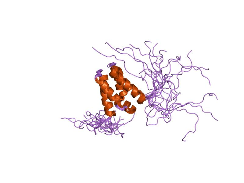 Cartoon representation of the molecular structure of protein registered with 1wjt code.